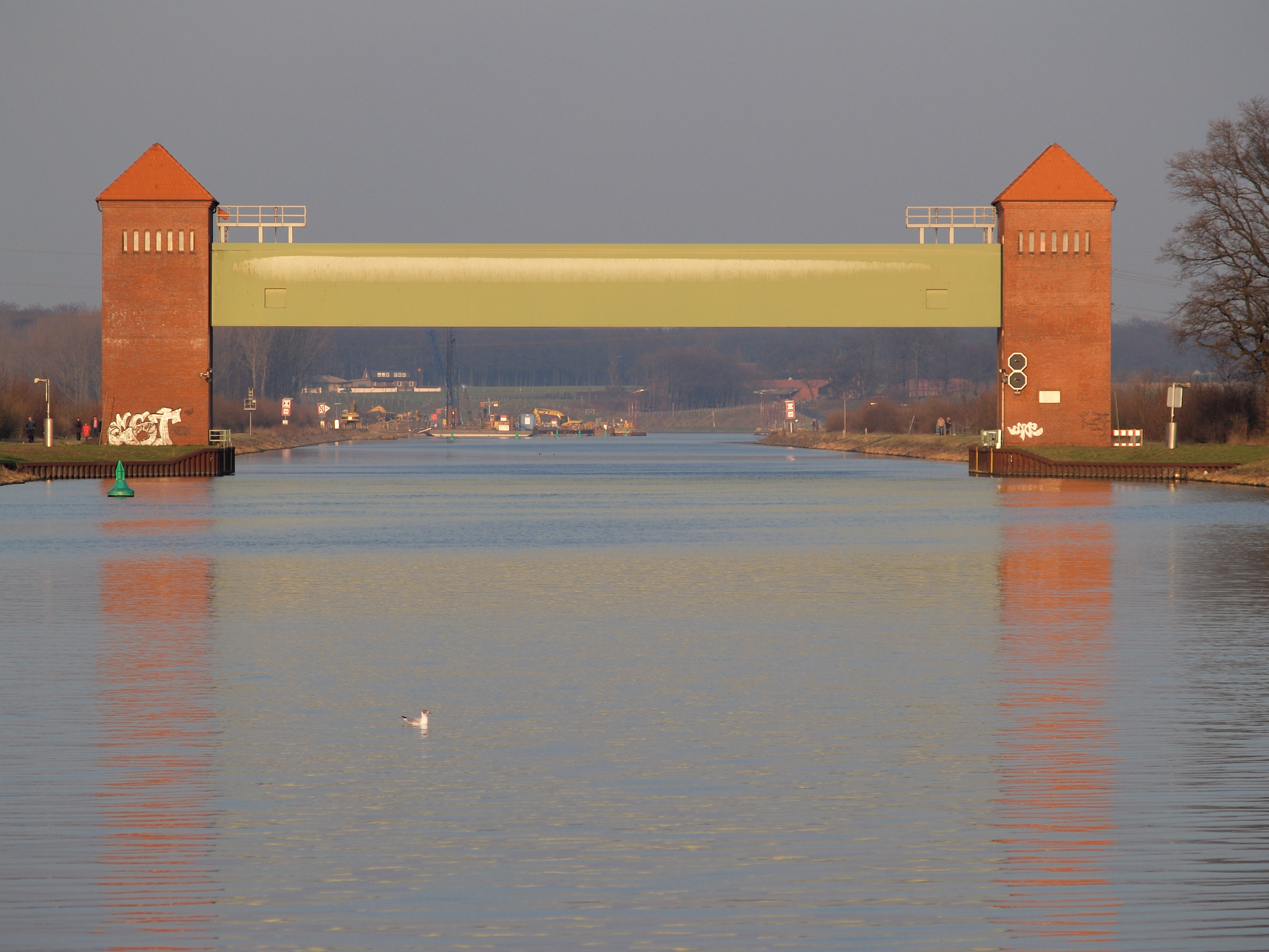 Dortmund-Ems-Kanal in Germany, opened Flood barrier